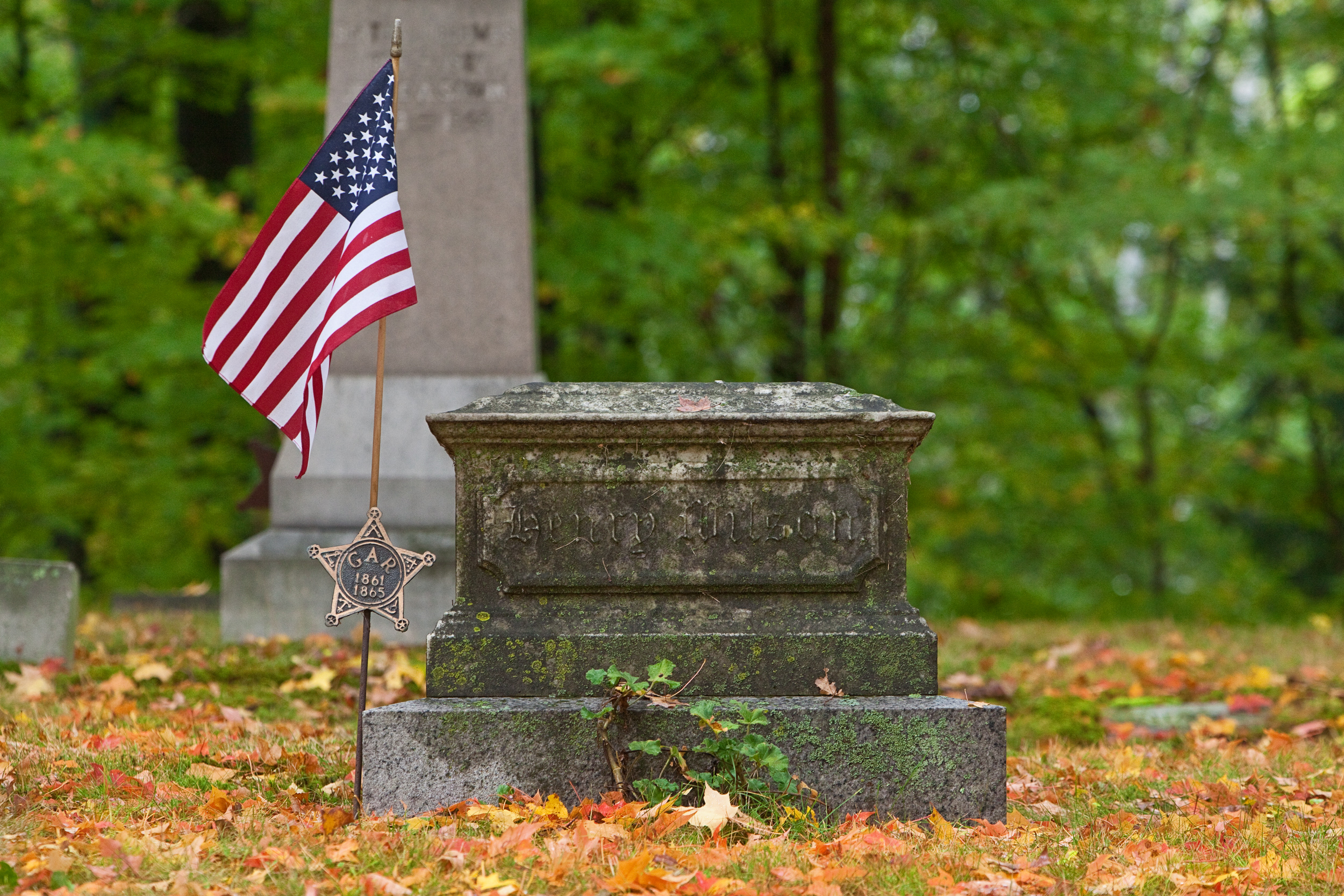 photography by Jeff Newcum